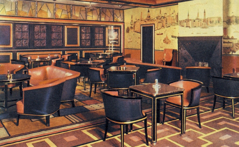 Ocean liner "M/S Kungsholm" first class room